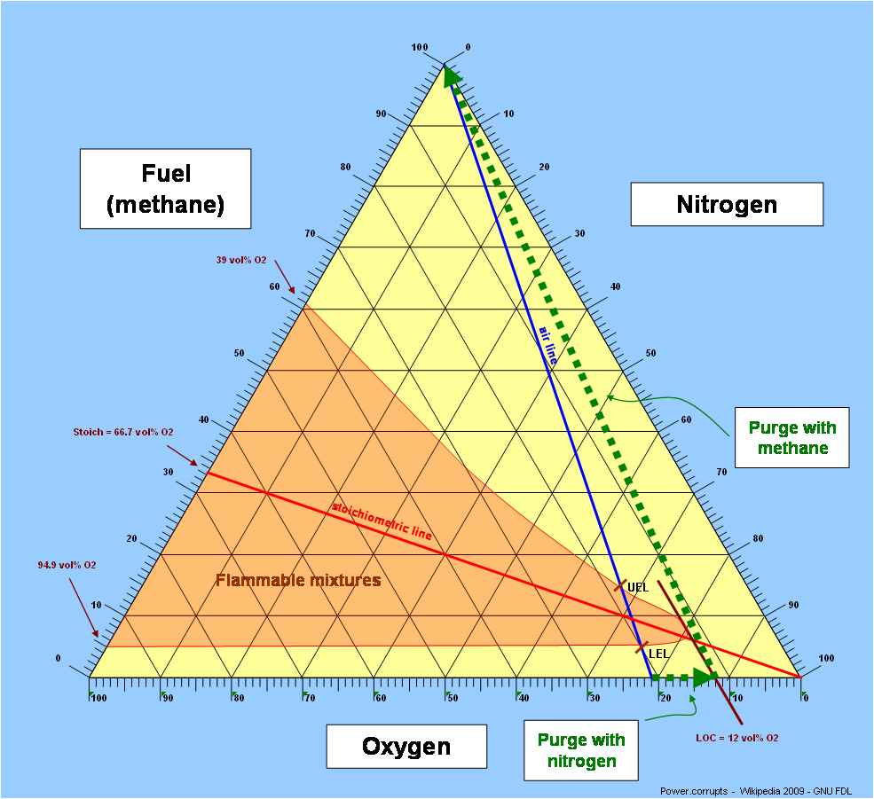 Flammability diagram showing the safe purging of an air-filled vessel, first with nitrogen, then with methane, to avoid flammable region, shows limiting oxygen concentration concept